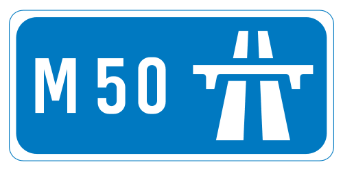 M50 Ireland Symbol